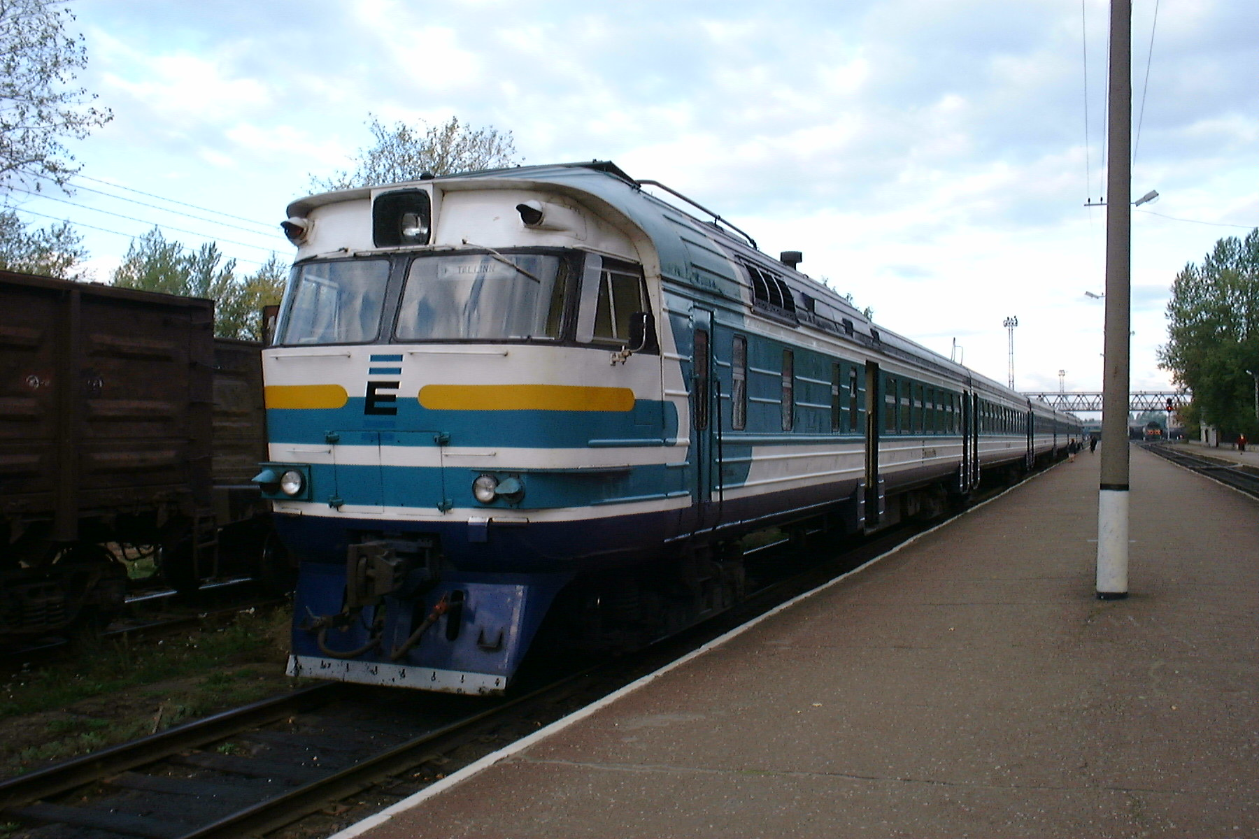 Diesel train at Narva